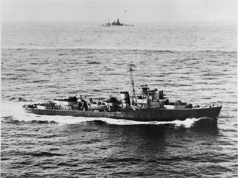 Aerial photograph of British Hunt Class destroyer HMS Exmoor. NOTE : This was the second HMS Exmoor, launched in 1941.